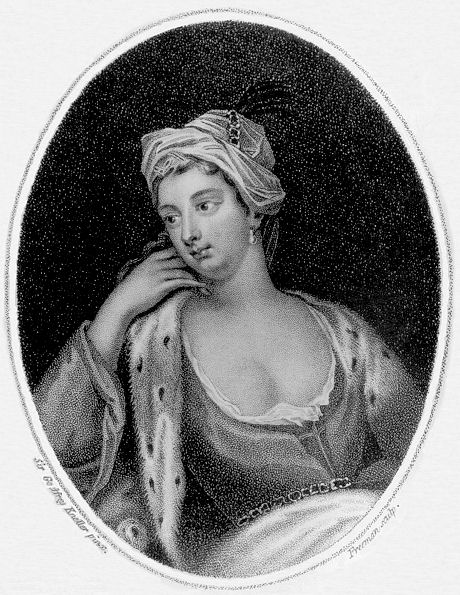 A portrait of Lady Mary Wortley Montagu, wife to the ambassador of the Ottoman Empire and forerunner of the variolation movement in England.